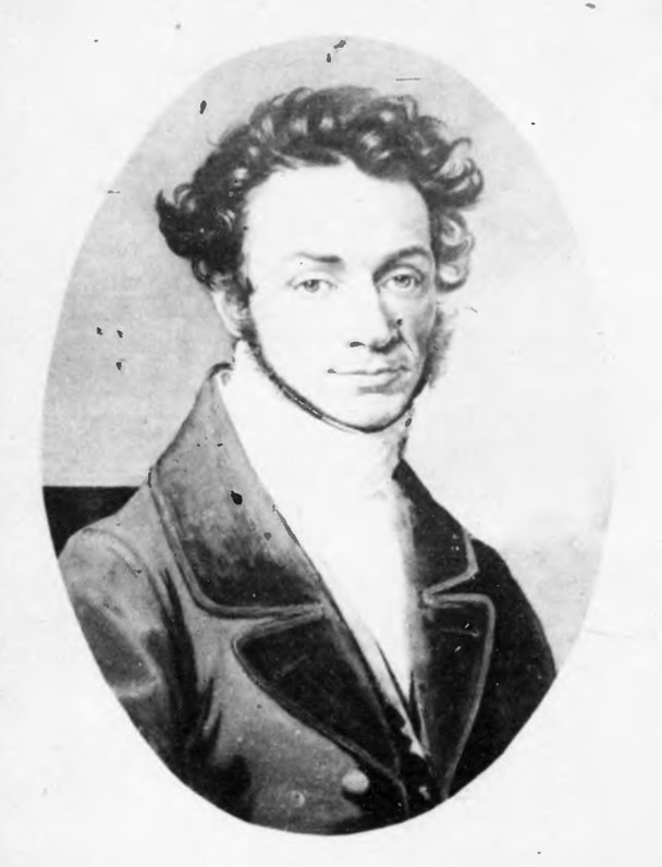 Czech poet, critic and libretist Josef Krasoslav Chmelenský (1800–1839)